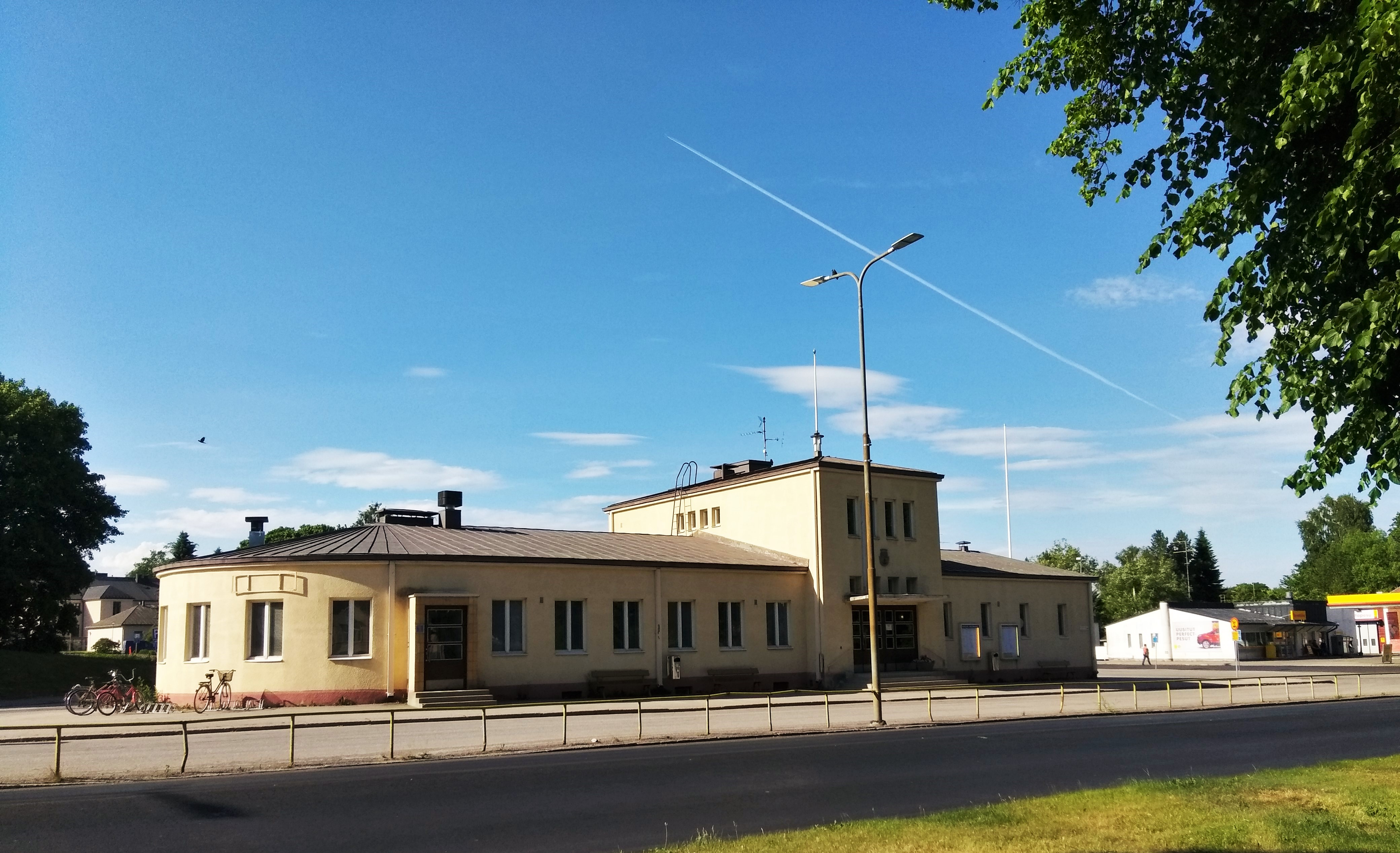 Bus station in Loviisa town, Finland